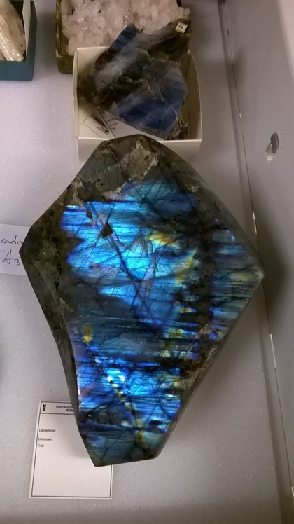 Labradorite, a feldspar mineral